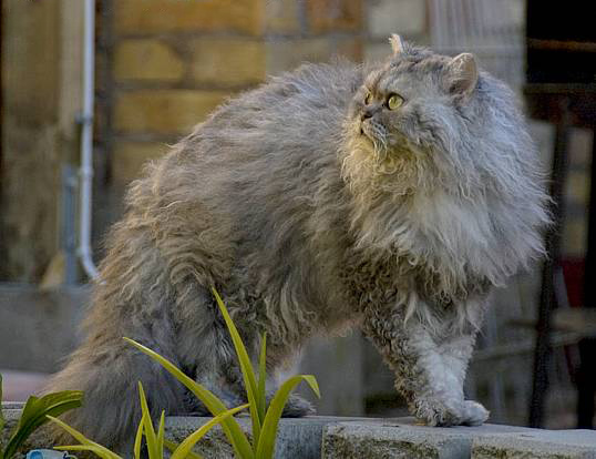 Abracadabra de la Fontaine Mamoine, long hair SELKIRK REX